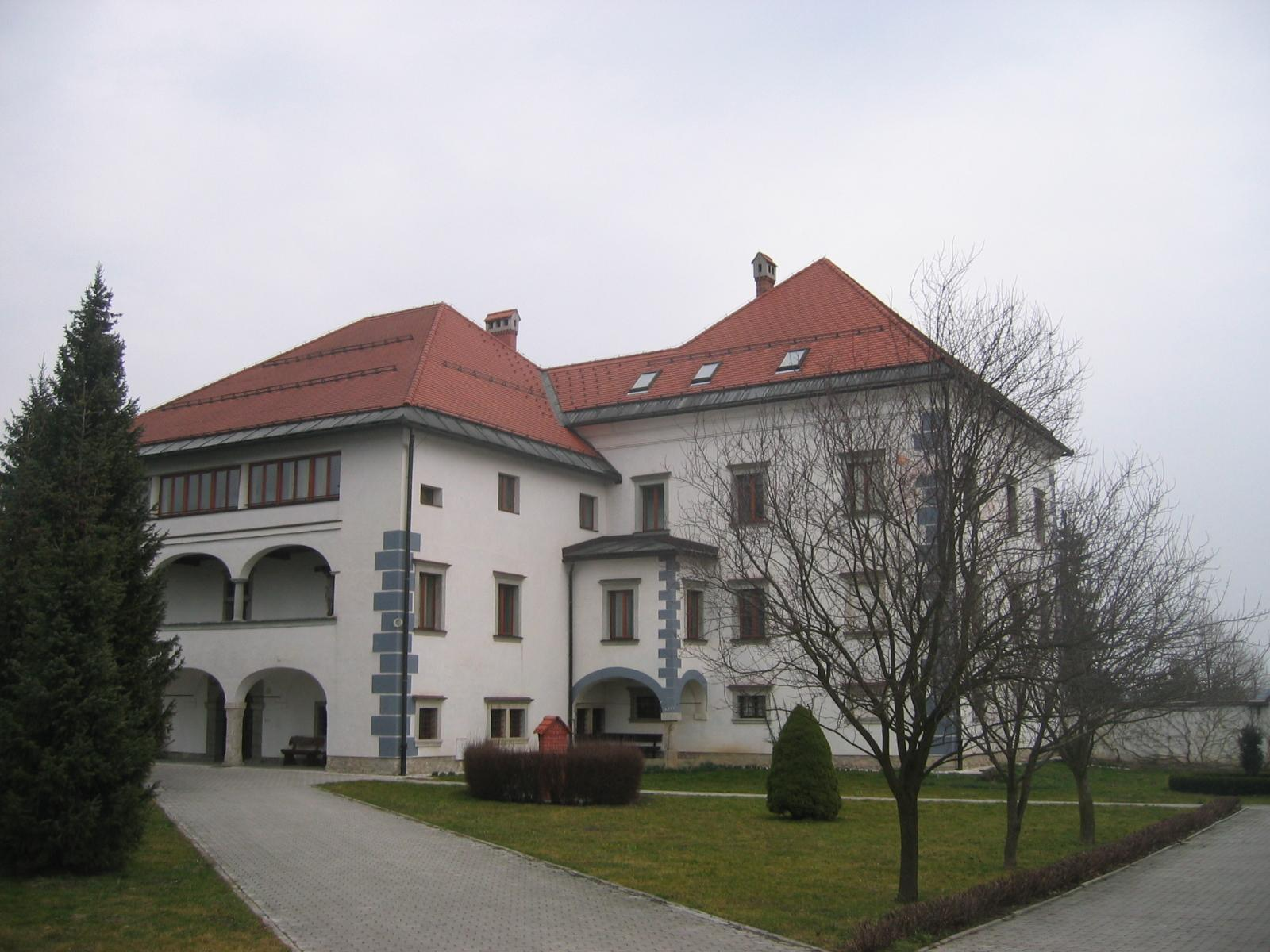 Ajman castle near Škofja Loka, Slovenia (currently monestery) photo:Ziga 08:54, 25 February 2007 (UTC)